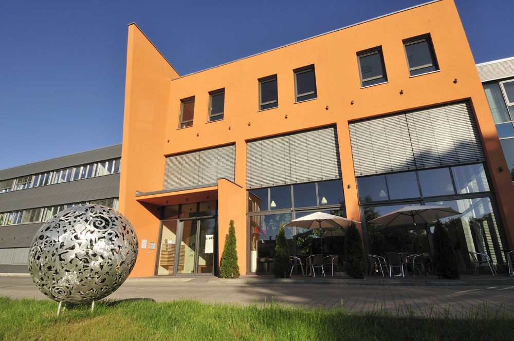 HarderVoelkmann-Orgel_Stockwerk_06